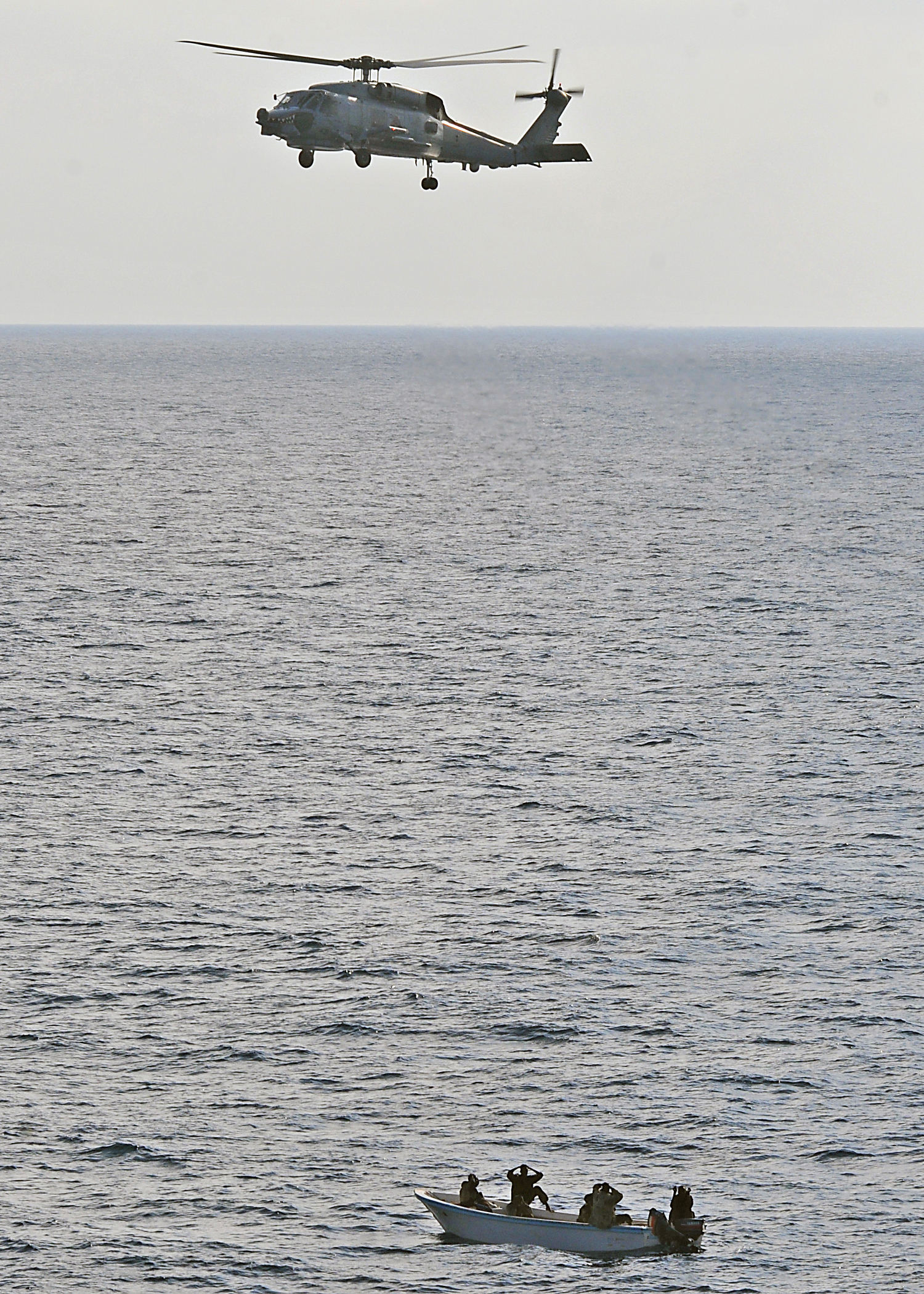 090211-N-1082Z-186 GULF OF ADEN (Feb. 11, 2009) Visit, board, search and seizure team members (VBSS) in a rigid-hulled inflatable boat (RHIB) from the guided-missile cruiser USS Vella Gulf (CG-72) close in to apprehend suspected pirates. Vella Gulf is the flagship for Combined Task Force 151, a multi-national task force conducting counterpiracy operations to detect and deter piracy in and around the Gulf of Aden, Arabian Gulf, Indian Ocean and Red Sea. It was established to create a maritime lawful order and develop security in the maritime environment. (U.S. Navy photo by Mass Communications Specialist 2nd Class Jason R. Zalasky/Released)